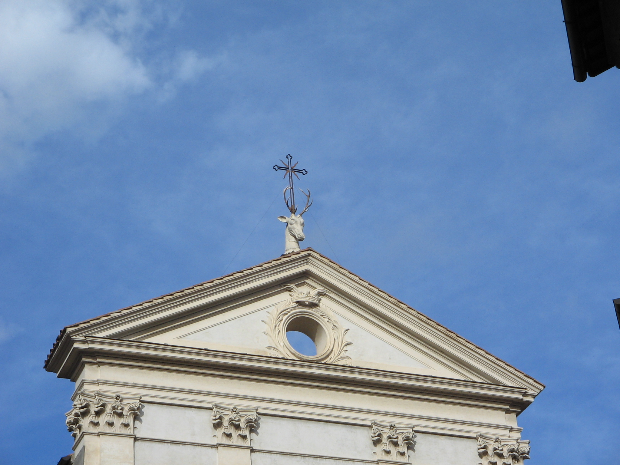 The top section is divided by four pilasters with on each side a large volute. In the middle is a large window with an arcuated cornice, flanked on each side by a niche adorned with shells. On top is a triangular pediment with in its middle a circular window surrounded with palm branches and surmounted by a crown. On top of the pediment stands a deer head with a cross between the antlers (done by the sculptor Paolo Morelli († 1719), in reference to the legend of Saint Eustace .